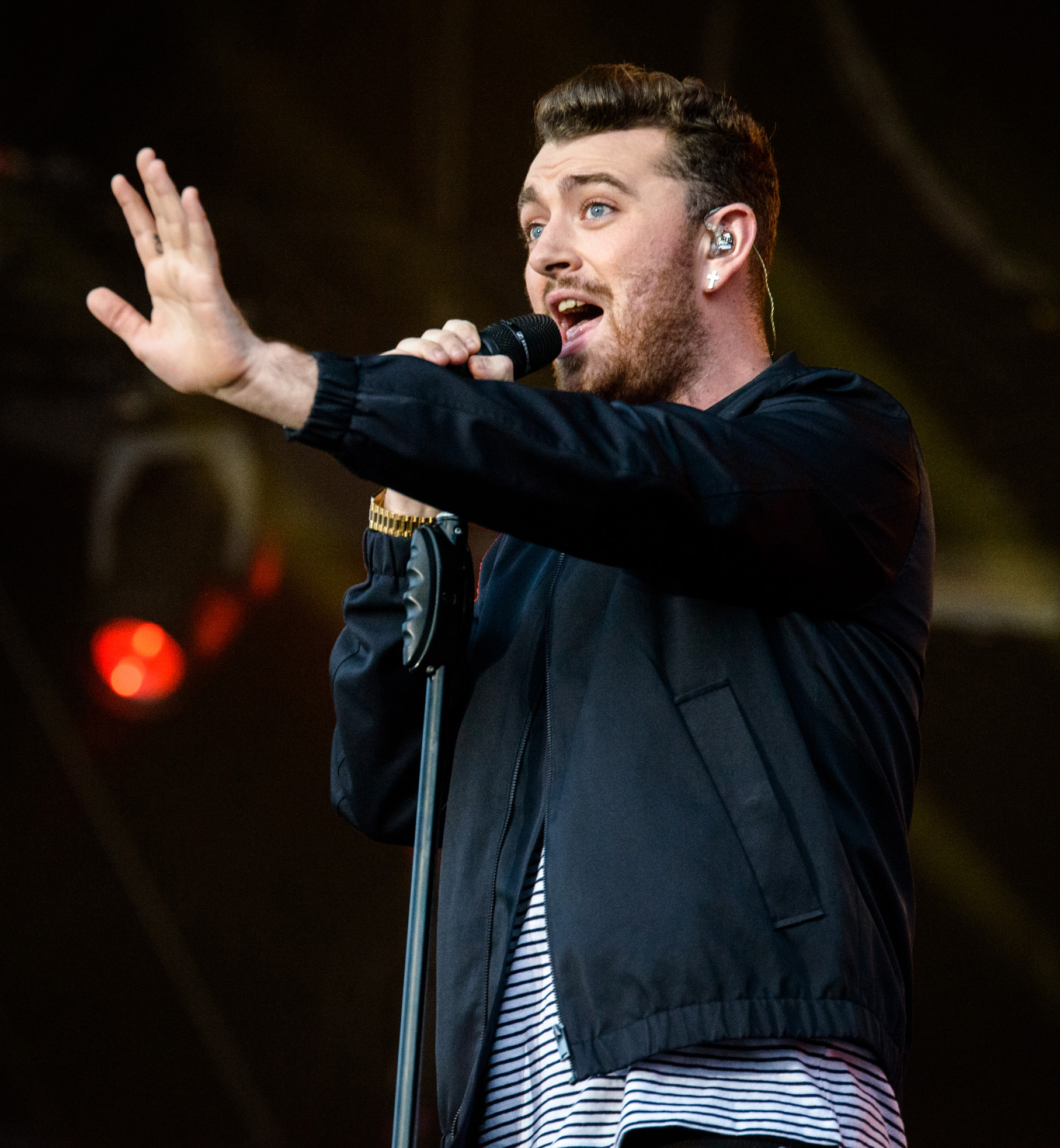 Sam Smith @ Lollapalooza 2015